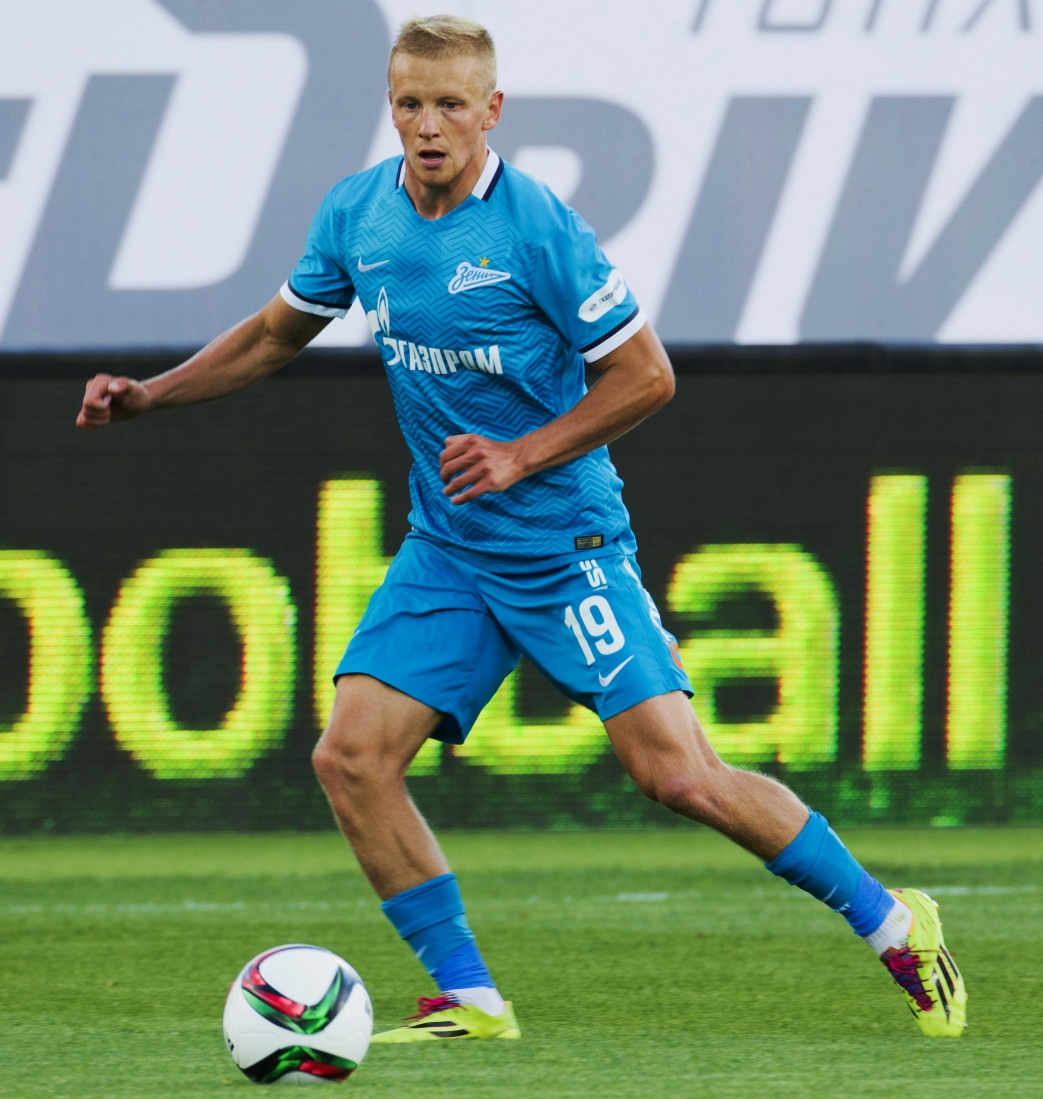 Igor Smolnikov